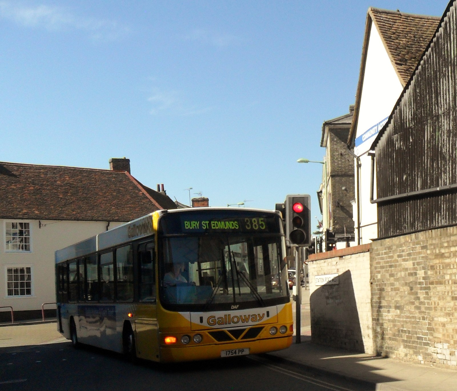 'Galloway' bus service, Stowmarket. The name of 'Galloway' seems 'far' from East Anglia, but the company is actually one of the regions largest coach and bus companies.